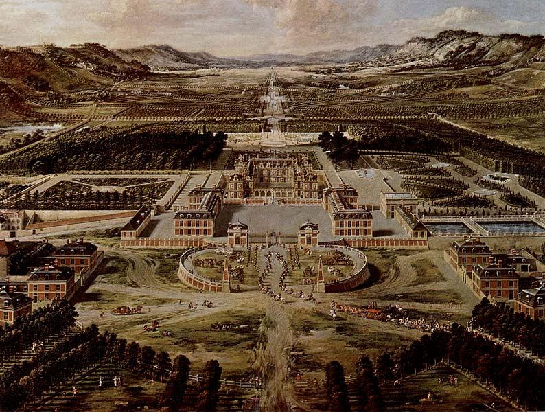 The Palace of Versailles circa 1668, as painted by Pierre Patel (Versailles Museum). The Grand Trianon, begun in 1670, is not depicted.